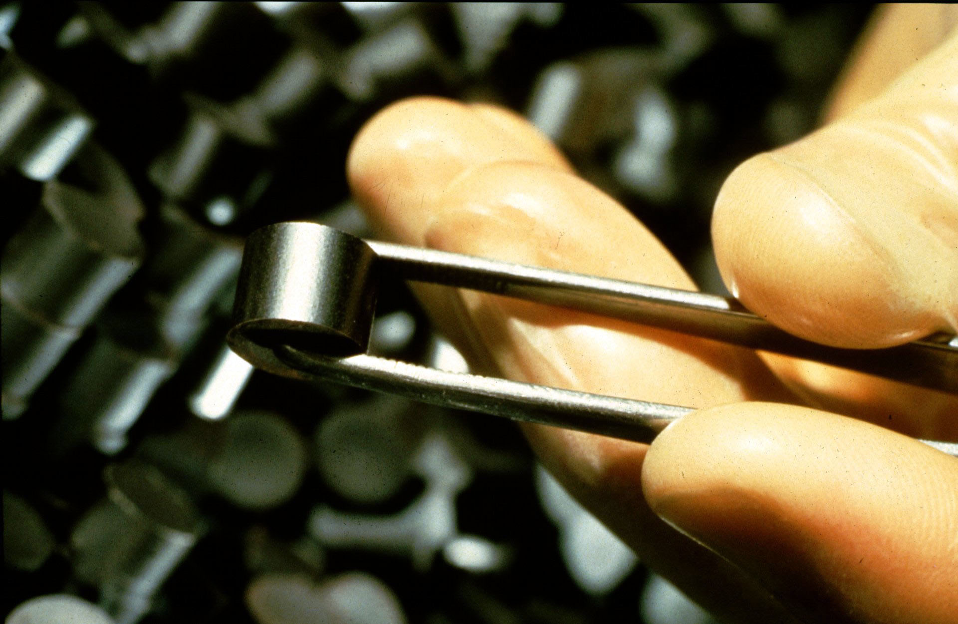 NRC Image of Nuclear Fuel Pellet